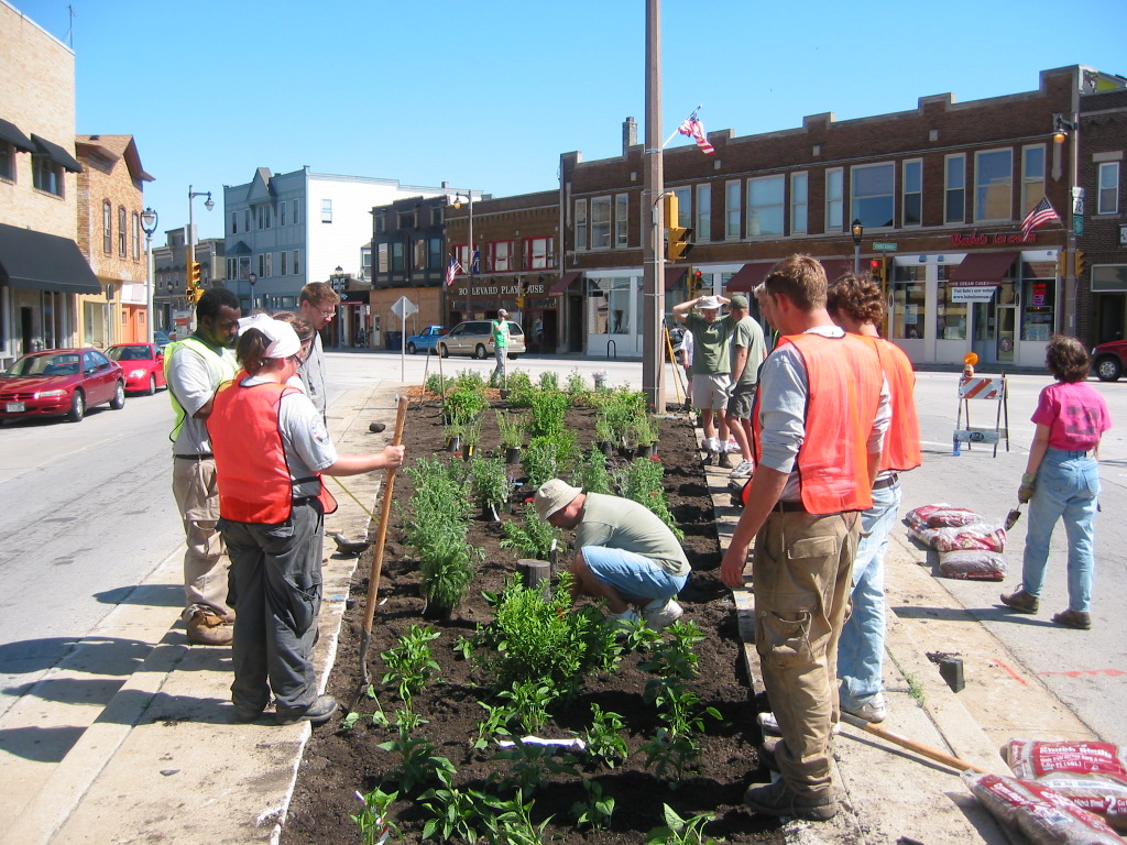 Members of the Bay View Garden and Yard Society and the Bay View Neighborhood Association planting the new garden at the KK Triangle.